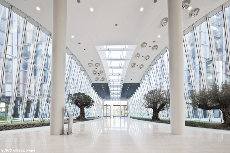 Building : Torre Iberdrola Location : Bilbao, Spain Architect: César Pelli Photographer: JM Byl Product : Stopray Vision-60T